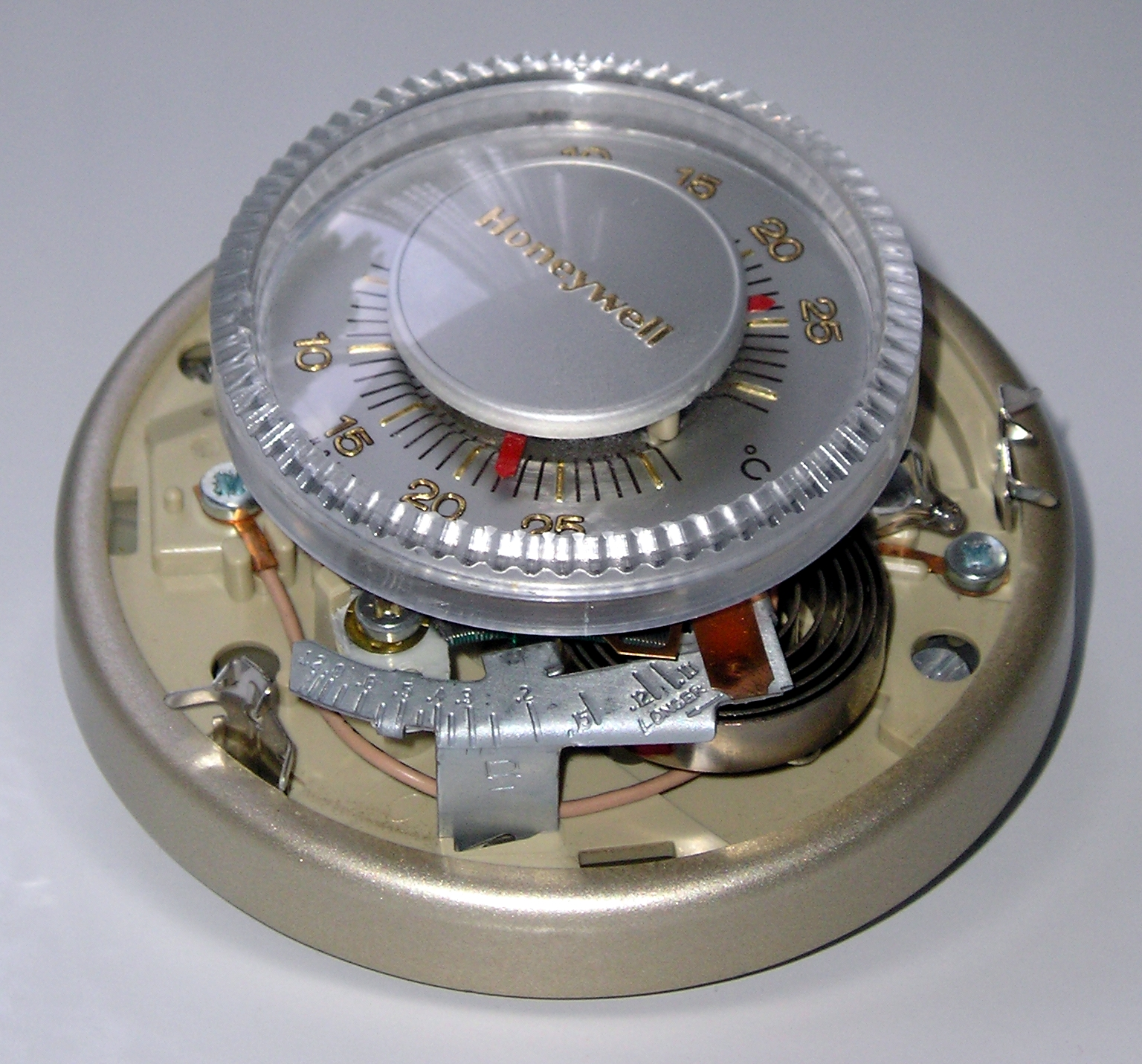 Honeywell thermostat for building (open).